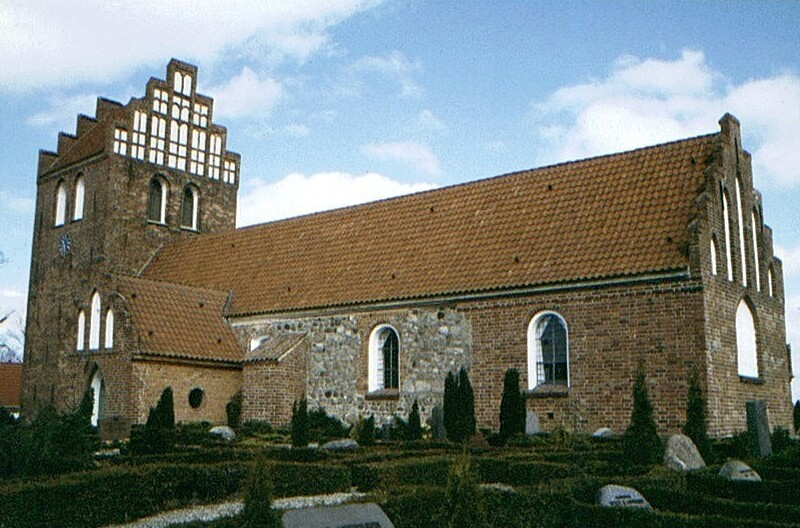 Outside view of Melby Church seen from the graveyard.